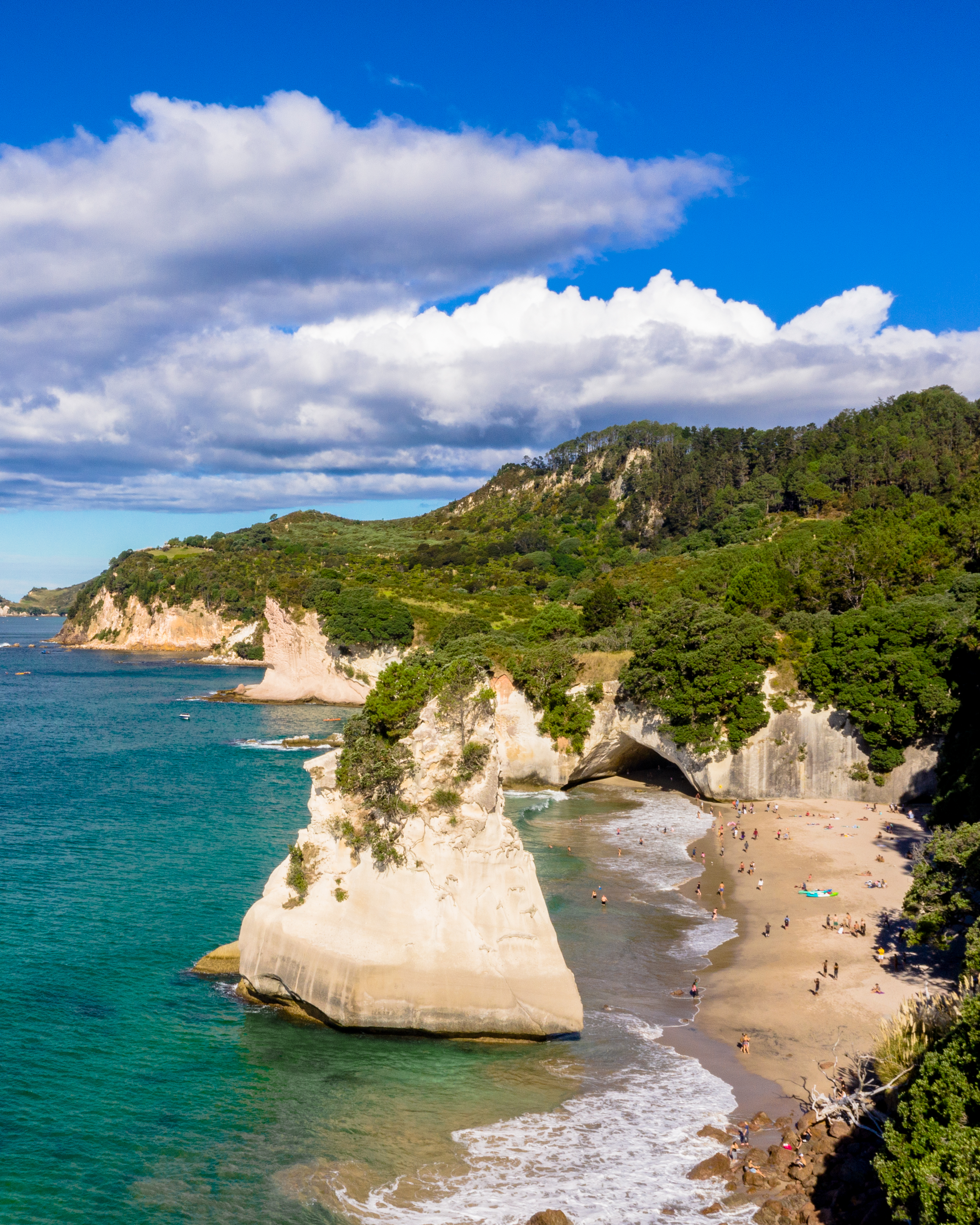 Cathedral Cove Aerial Picture